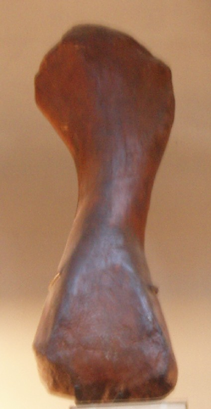 Limb bone of Aepisaurus